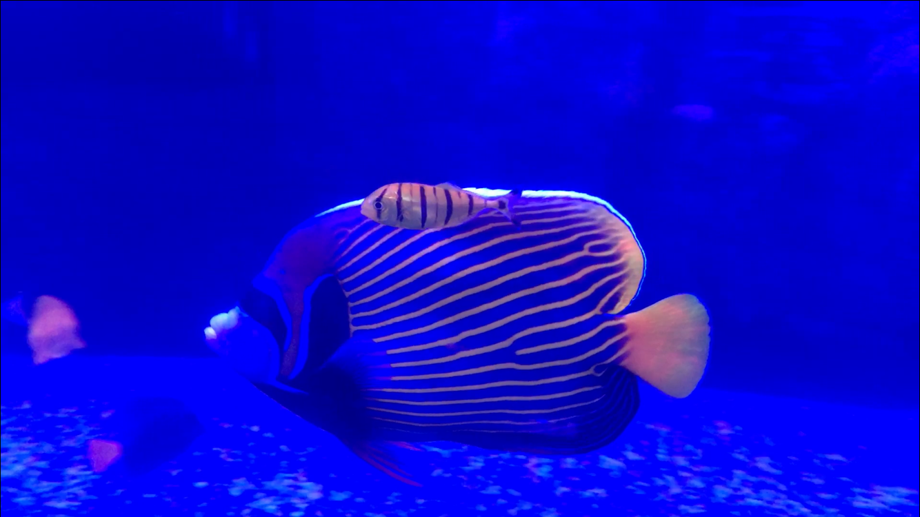 A Golden trevally (Gnathanodon speciosus) hosting an Emperor angelfish (Pomacanthus imperator) at an aquarium store.